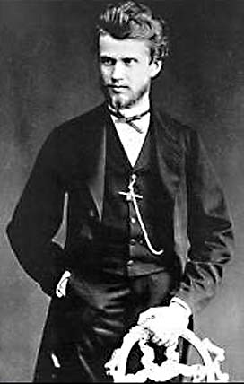 Conductor and composer Eduard Nápravník